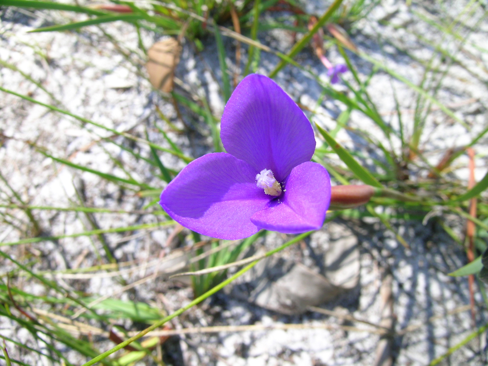 Native, cool season, perennial, tufted, hairless herb to 50 cm tall. Leaves are basal, linear, 20–80 cm long, 1–5 mm wide, biconvex to terete, grooved, hairless, and slightly glaucous. Spathe bracts are 2.5–5 cm long and green to brown, with a dark brown scarious margin. Perianth tube is 2.5–3.5 cm long. Outer tepals are 12–23 mm long and pale violet to blue-violet; inner lobes are 1–2 mm long. Filaments exserted 2–3 mm, almost completely fused. Ovary is hairless and inferior. Flowering is from late winter to early summer. Grows in wet heath.